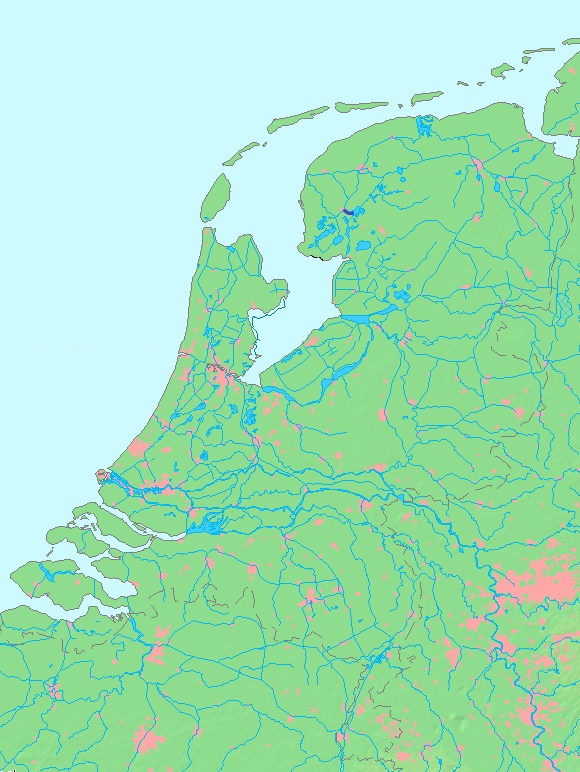 Location Houkesloot Friesland the Netherlands